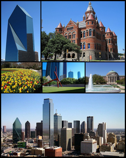 Montage of the City of Dallas: Clockwise from top left: Fountain Place, Dallas County Courthouse, Dallas Hall at Southern Methodist University, Downtown Dallas skyline, Dallas Arboretum and Botanical Garden, and the Dallas Museum of Art in the Dallas Arts District.